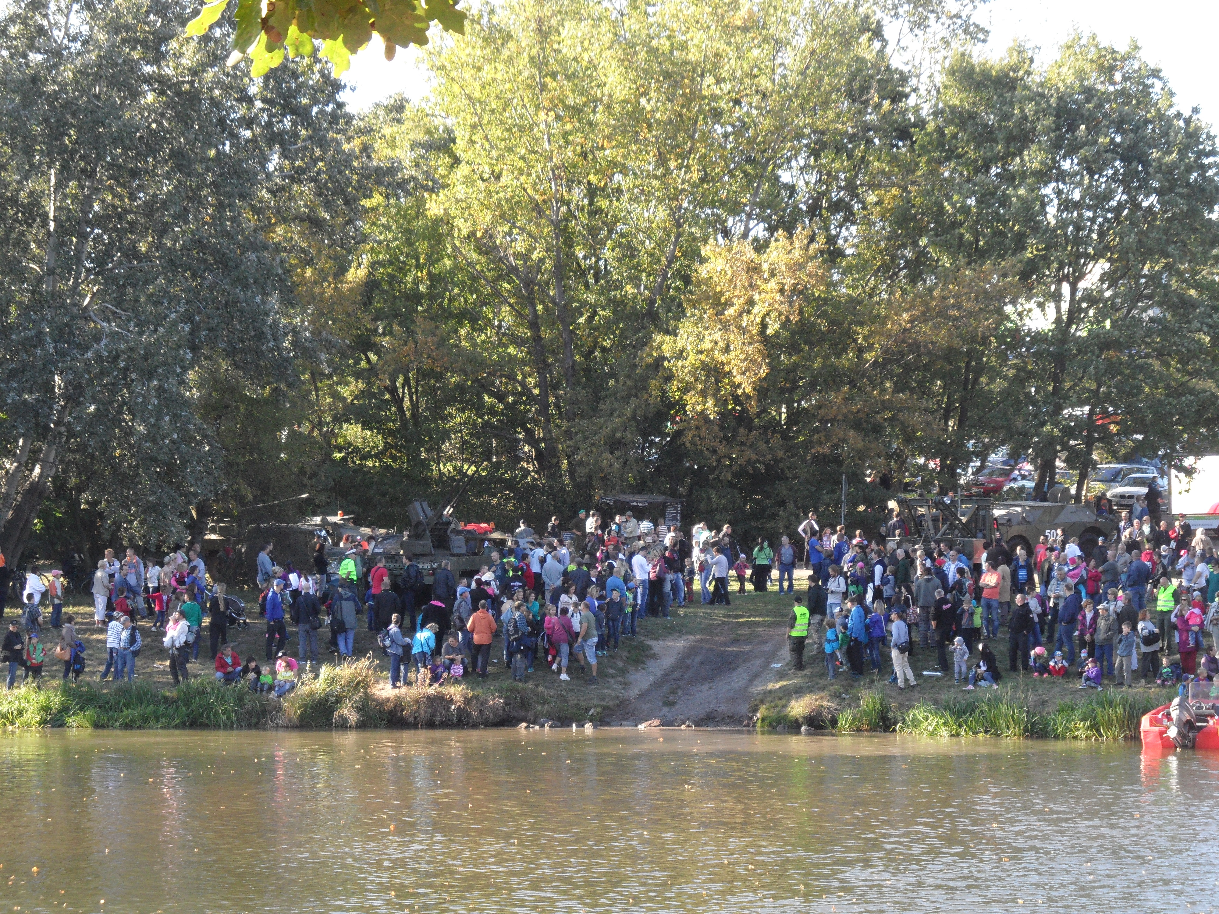 Retro City. Friday: B. Visitors on the Right Bank of Labe (Elbe). Pardubice, Pardubice District, the Czech Republic.